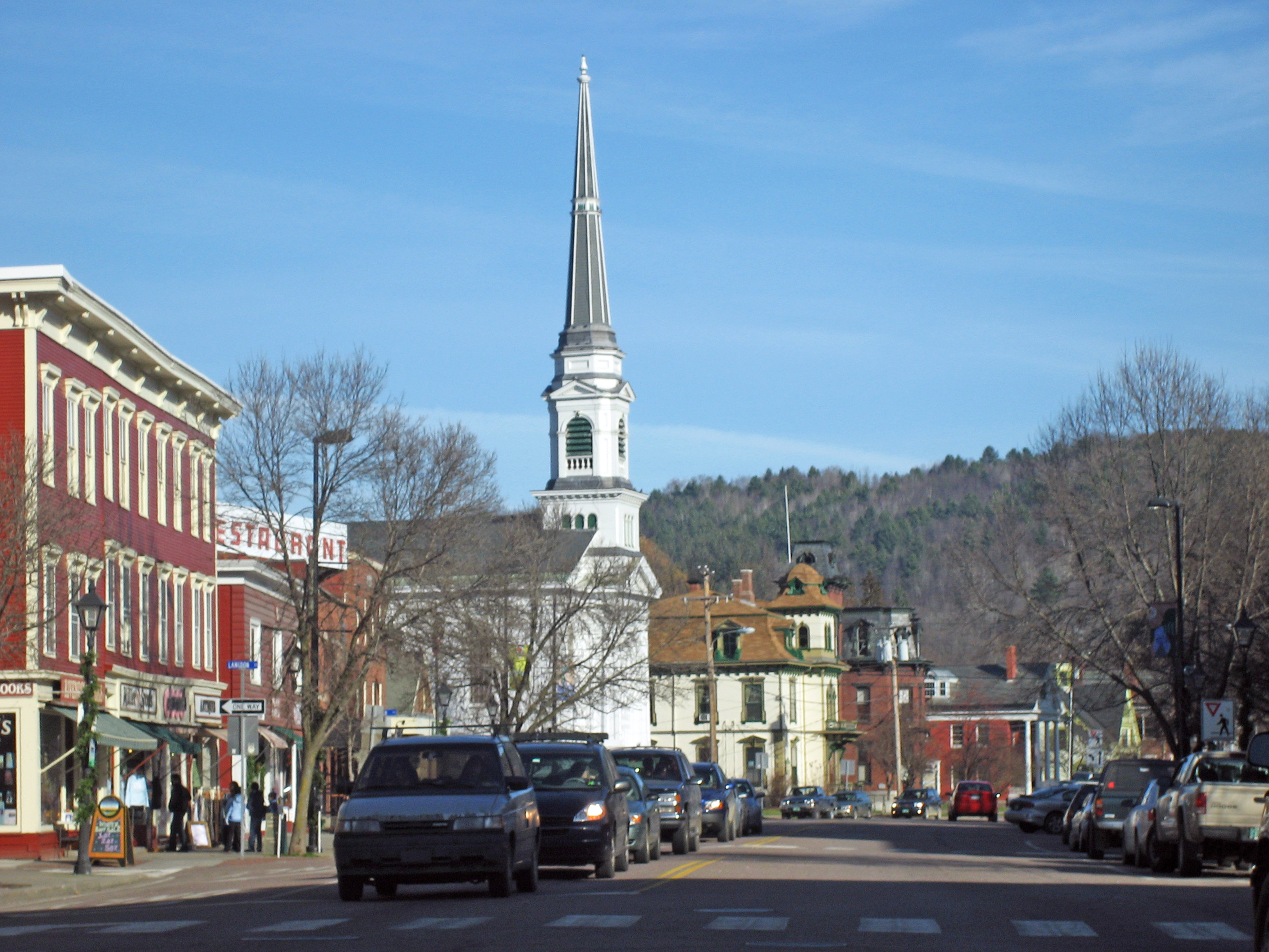 Main Street, Montpelier, Vermont showing the steeple of Thomas Silloway's Unitarian Universalaist Church.